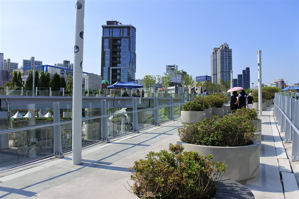 Seoul 7017 Skypark, Korea, near the Rose Terrace